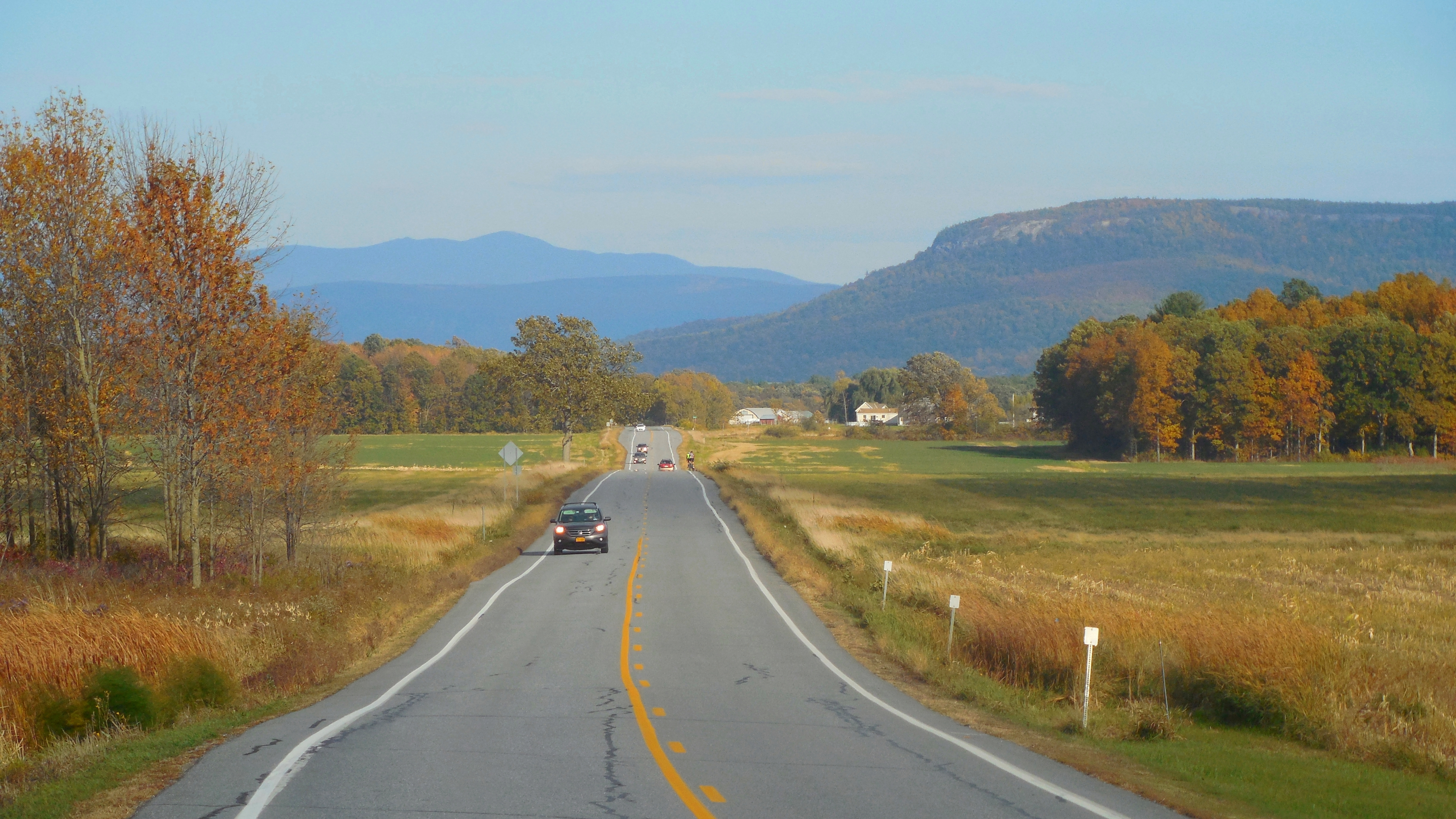 Snake Mountain (right) and Mt. Abraham (far center) along VT Route 17 (looking eastward) in Addison, Vermont in October 2015